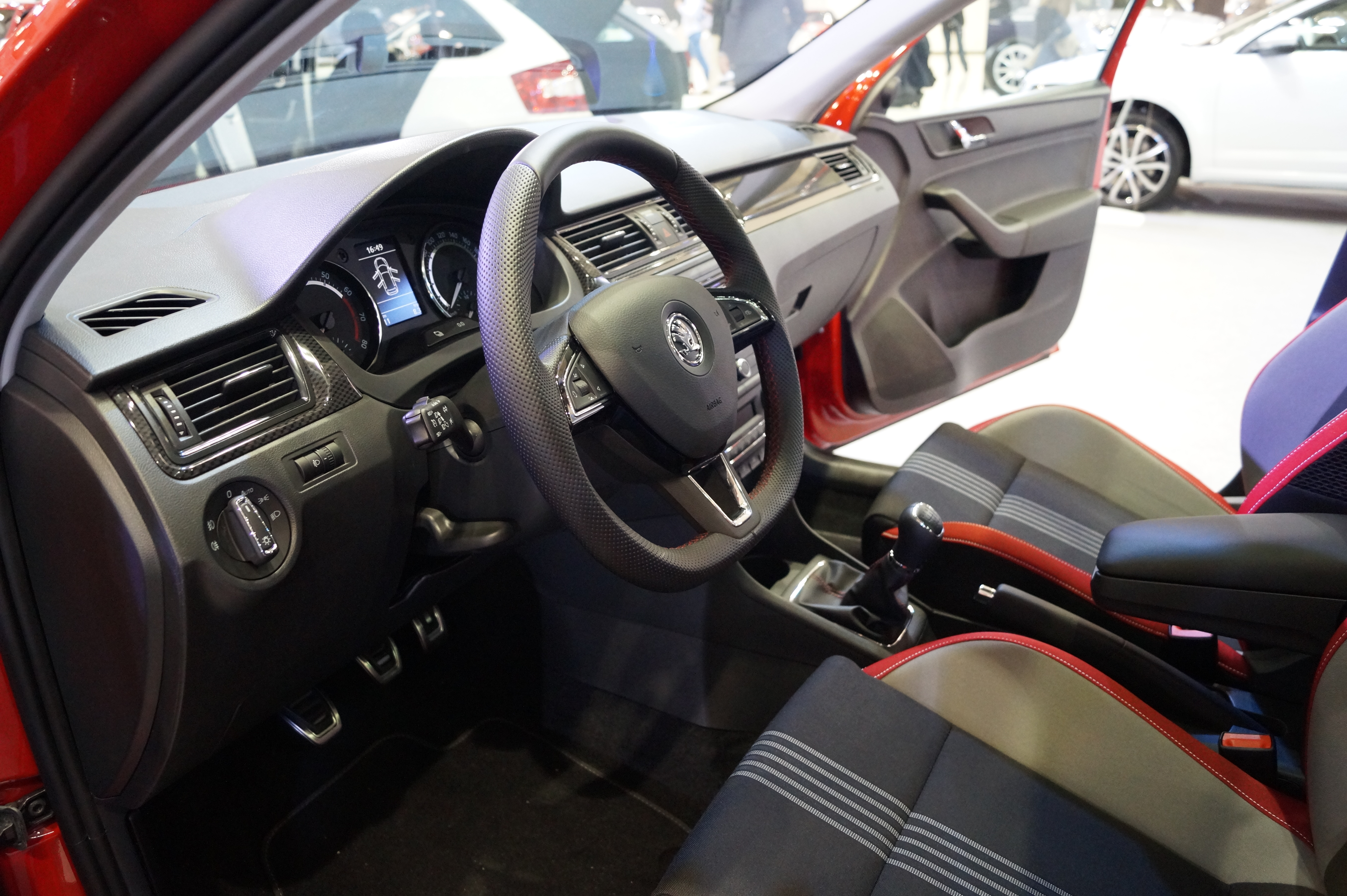 The making of this document was supported by Wikimedia Polska Association, within Wikigrant no. WG 2015-19. Wnętrze Škody Rapid na Motor Show Poznań 2015